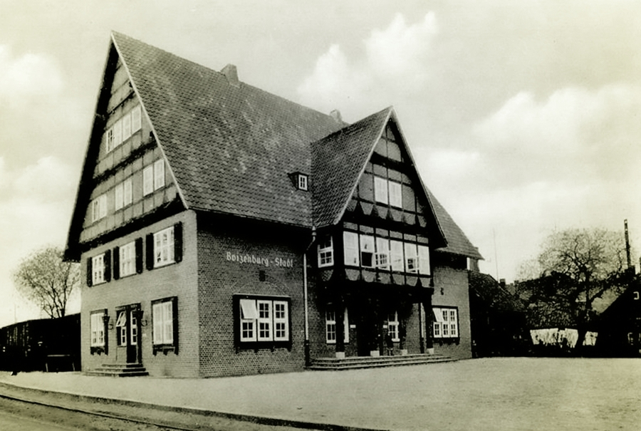 boizenburg bahnhof